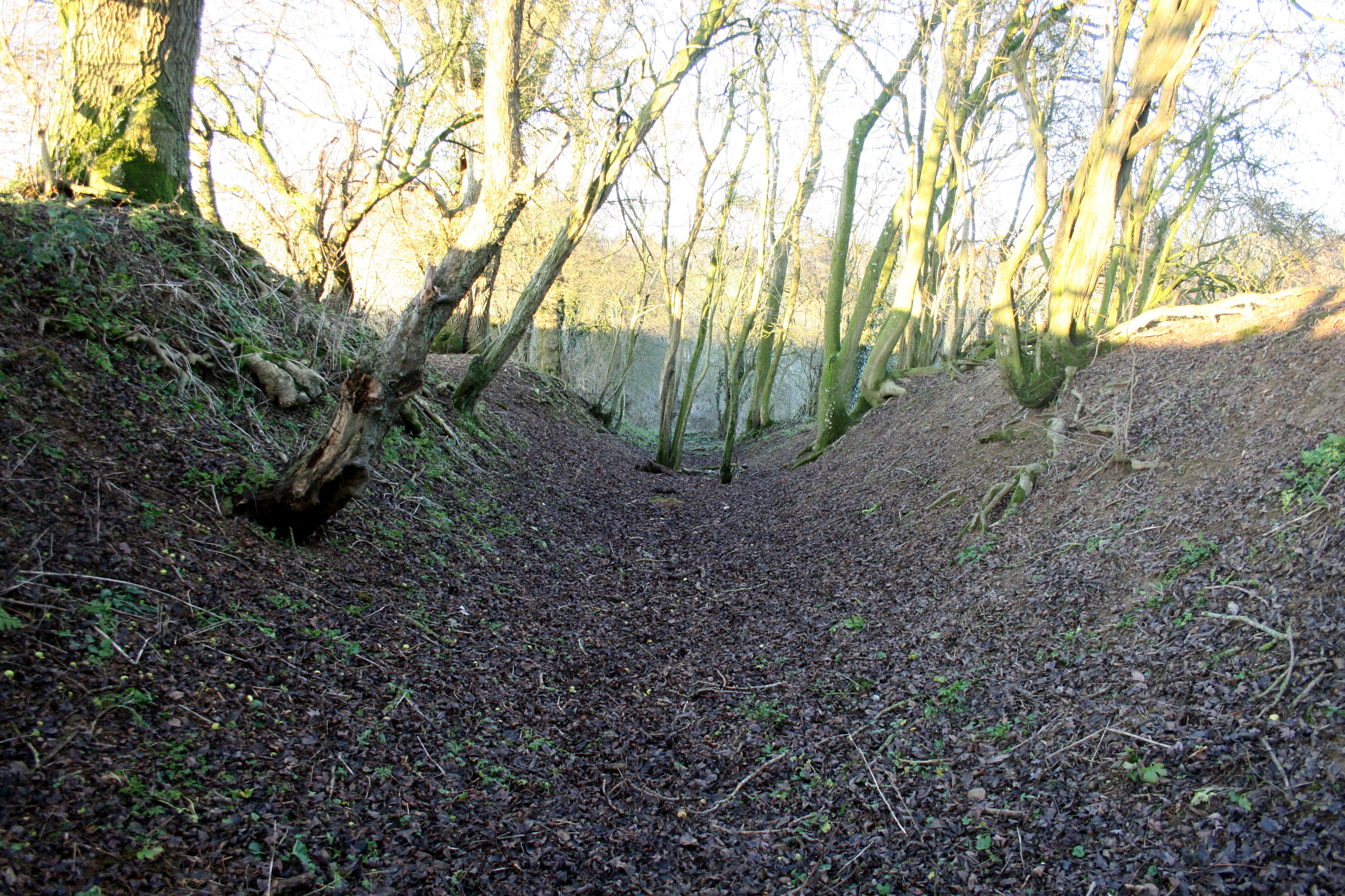 Hook Norton Ironstone Partnership Tramway. Cutting north of Banbury Road, descending to stream.